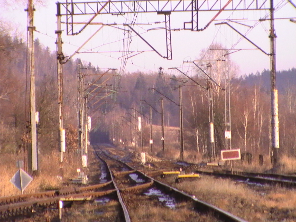 Railway no. 274.